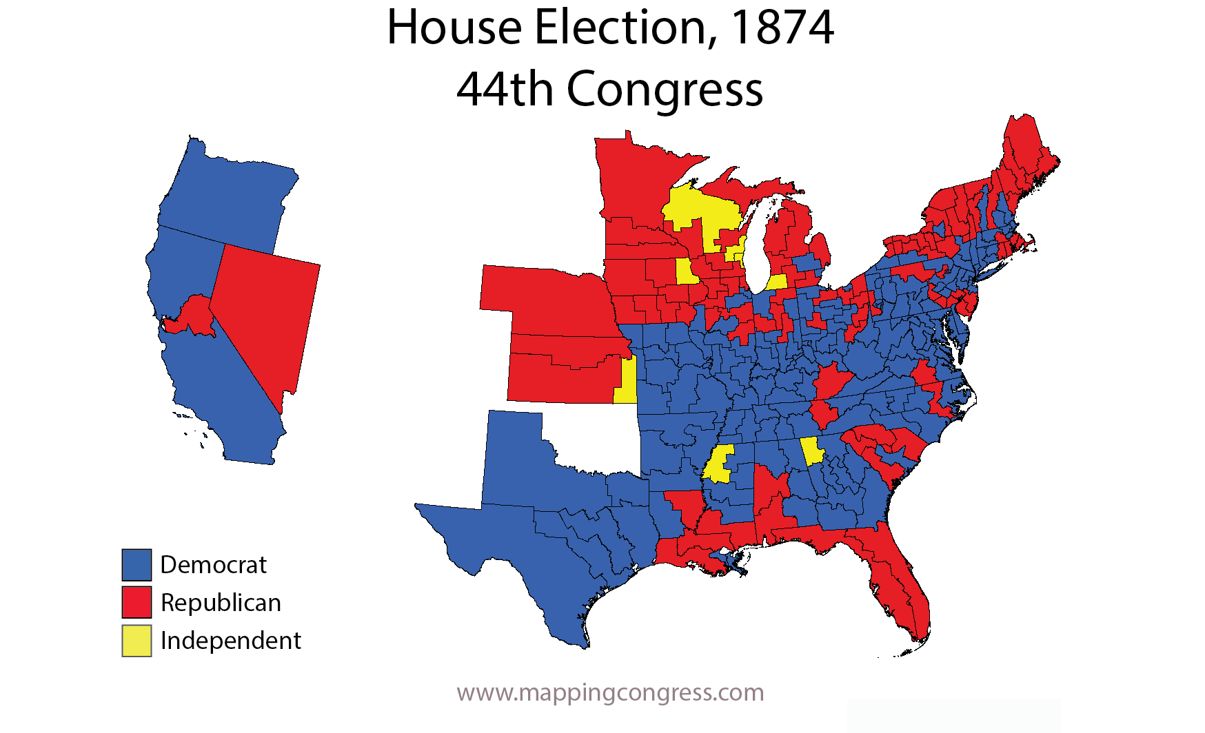 Map of U.S. House elections results from 1874 elections for 44th Congress